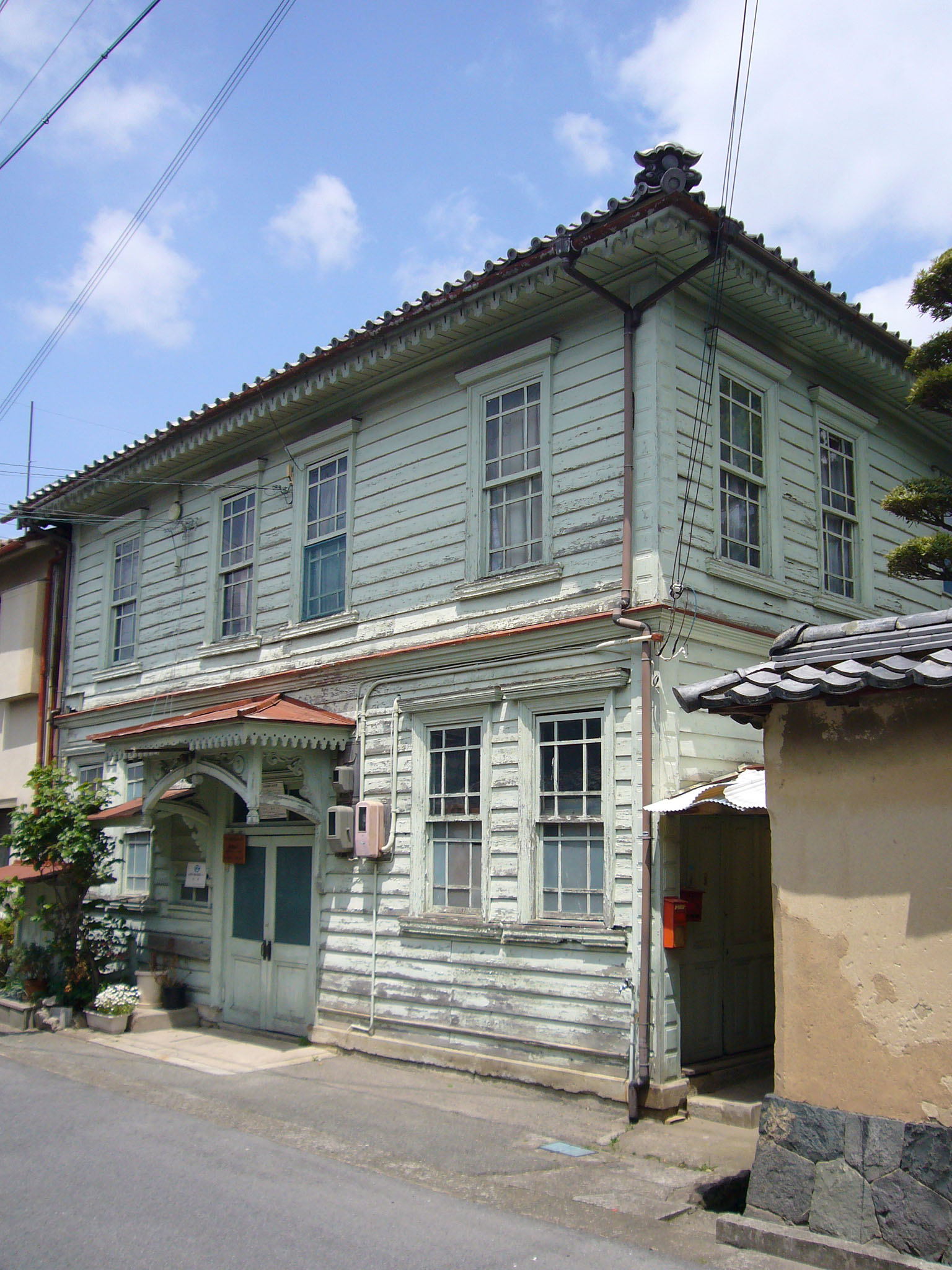 Old Tsujikawa Post Office in Fukusaki, Hyogo, Japan